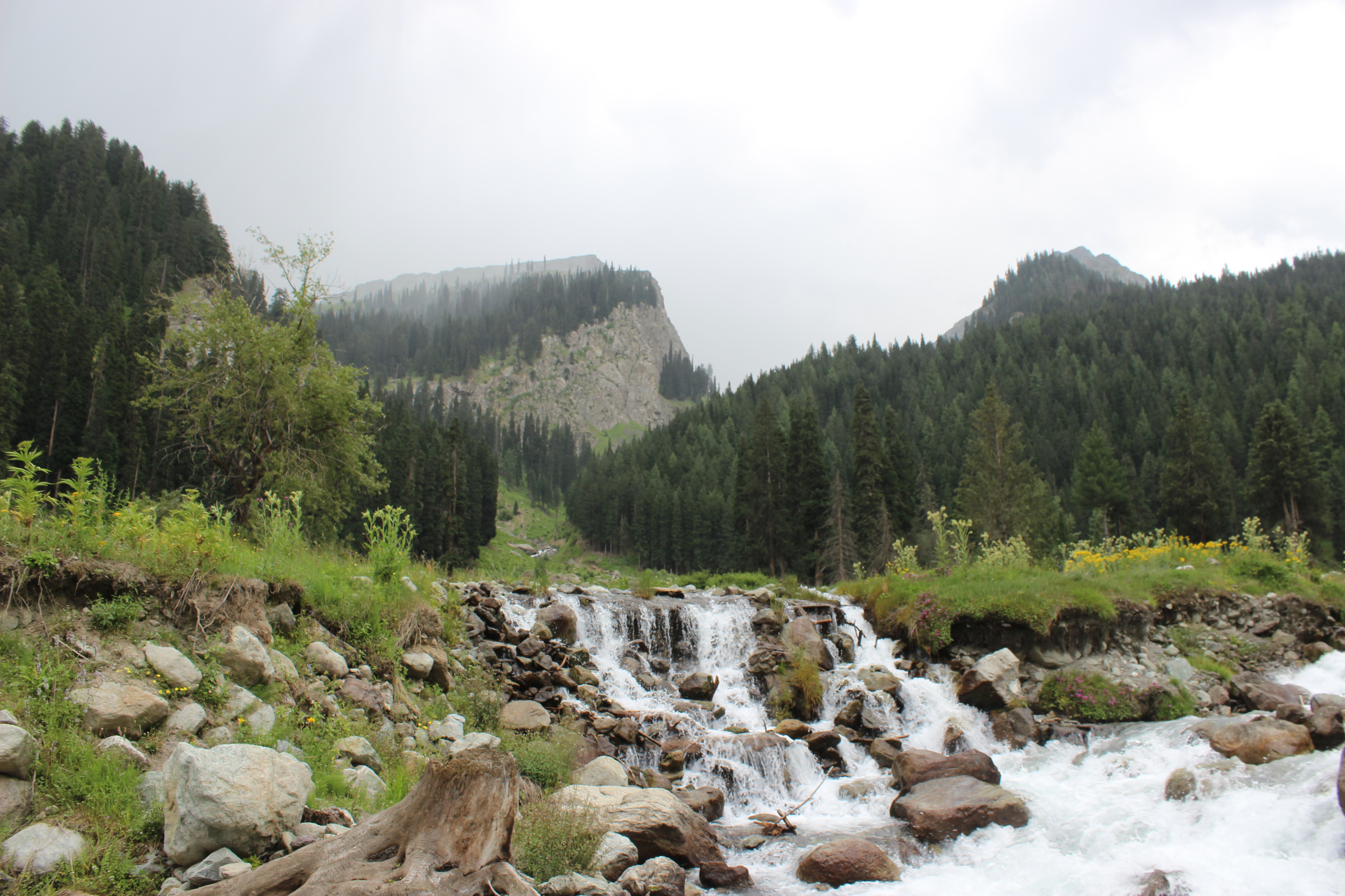 Nobody need to describe the beauty of nature,natures telling the story of his beauty by himself